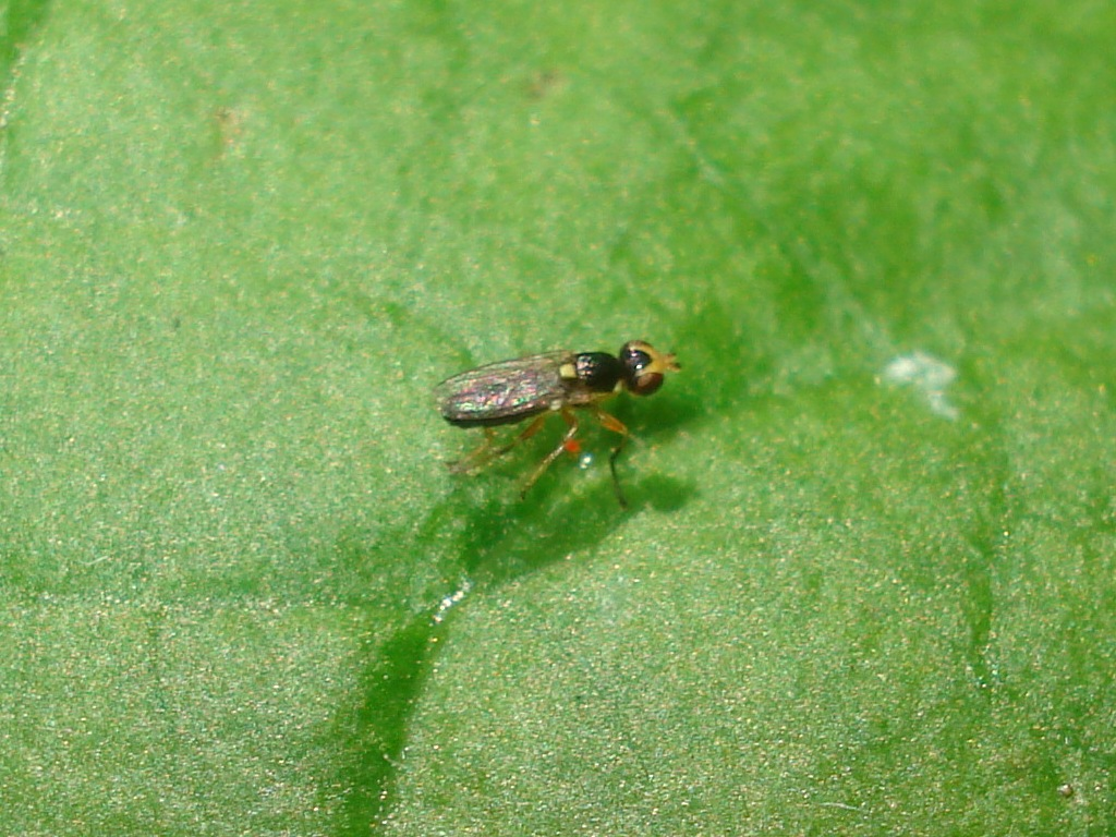 Cetema elongatum